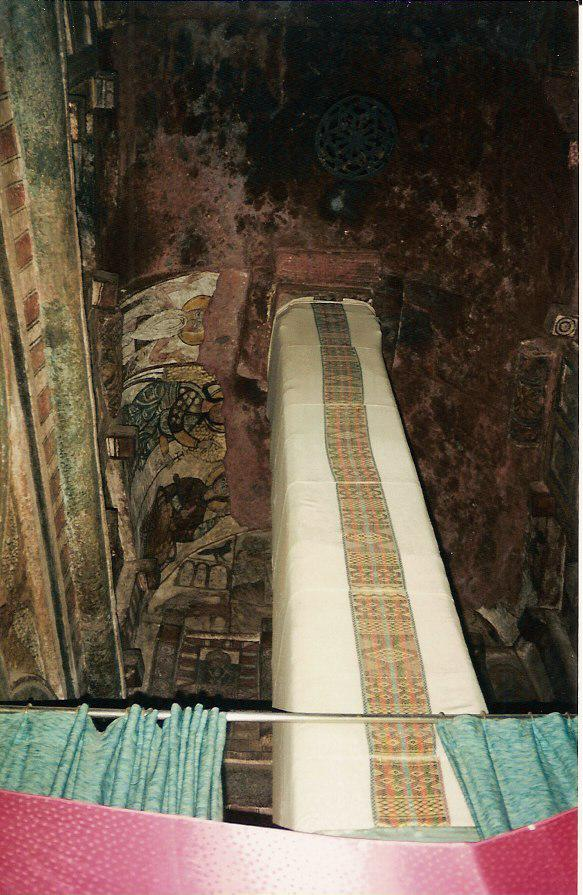 covered pillar and Mural from interior of Beta Maryam, Lalibela, Ethiopia.